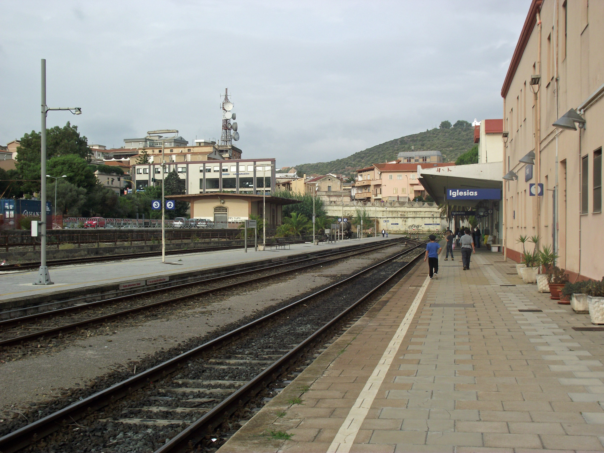 Inside the Iglesias railway station, in Sardinia, Italy